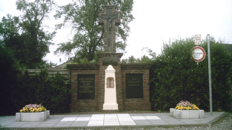 Memorial Cross in Lockhütte, Mönchengladbach, Germany.